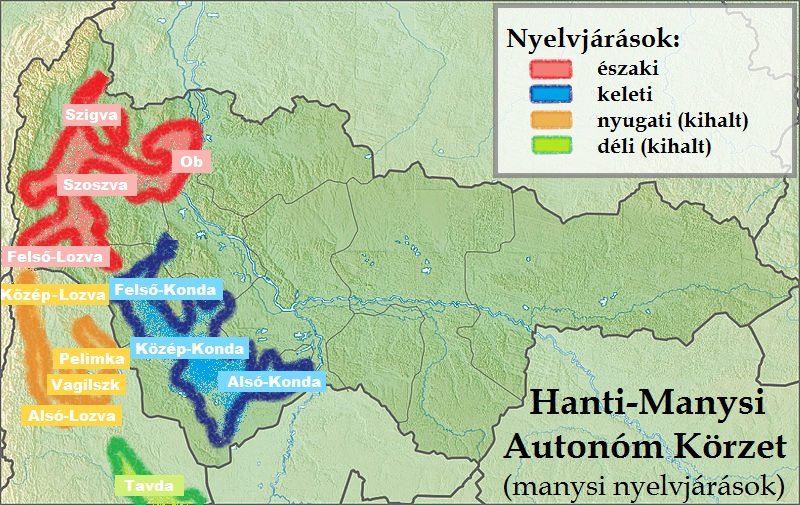 The Map of Mansi dialects in the Khanty-Mansi Autonomous Okrug